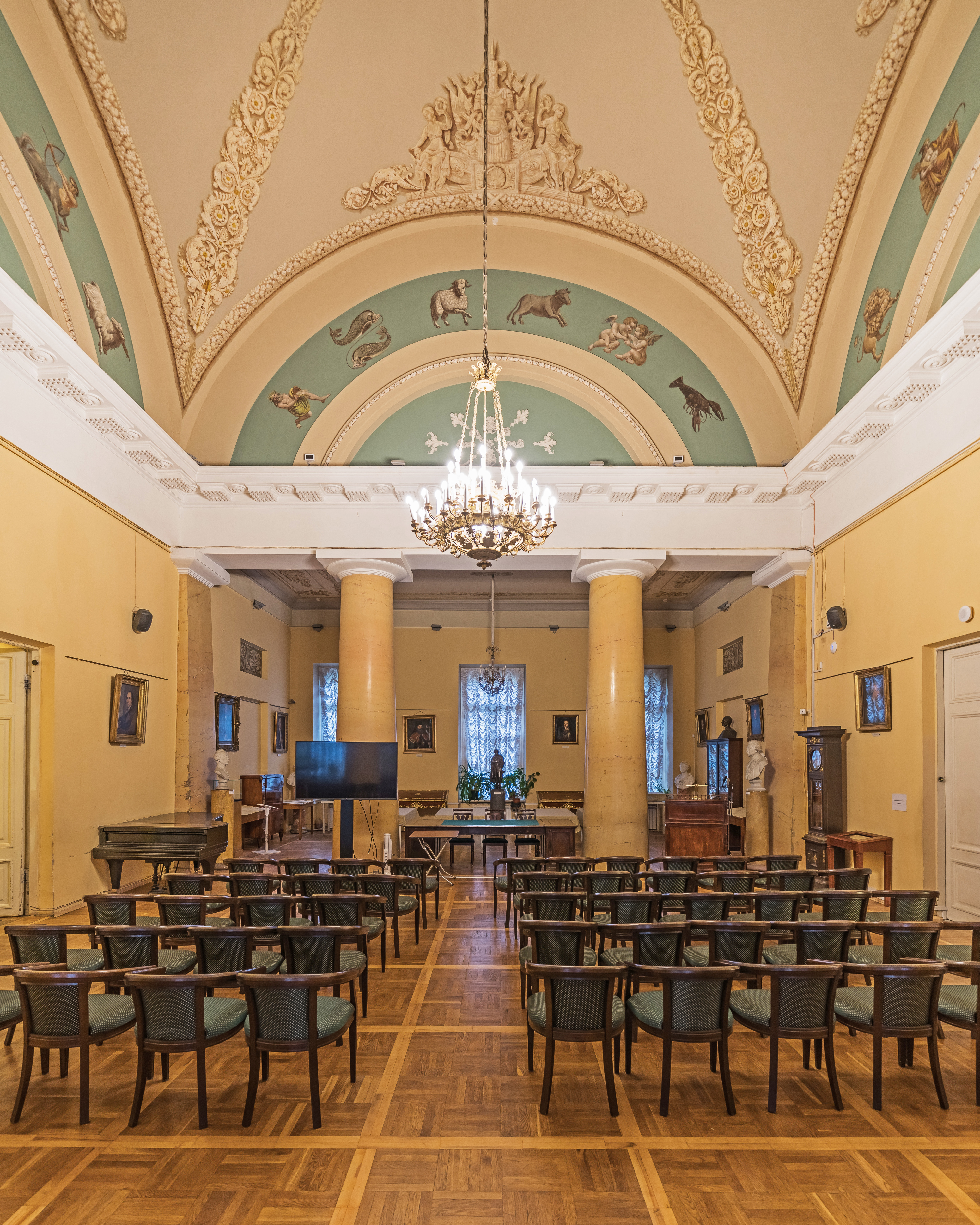 Interior of the Pushkin House on Vasilievsky Island in Saint Petersburg, Russia